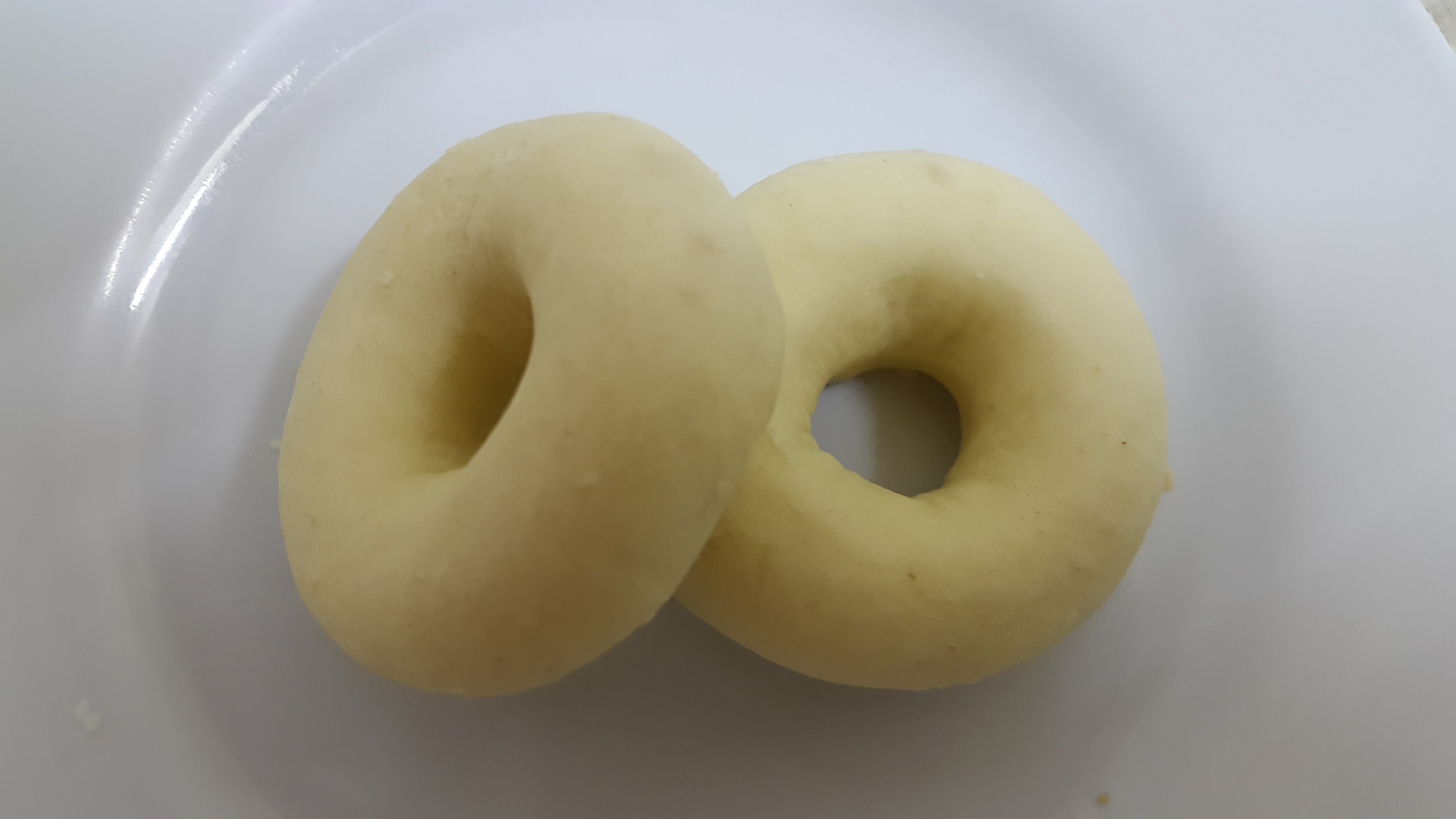 Typical Libyan Dish.